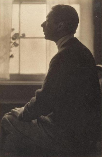 Portrait of Adolf de Meyer, circa 1904